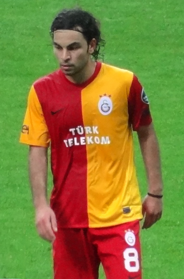 Selçuk İnan Gaysaray formasıyla Eskişehirspor maçında